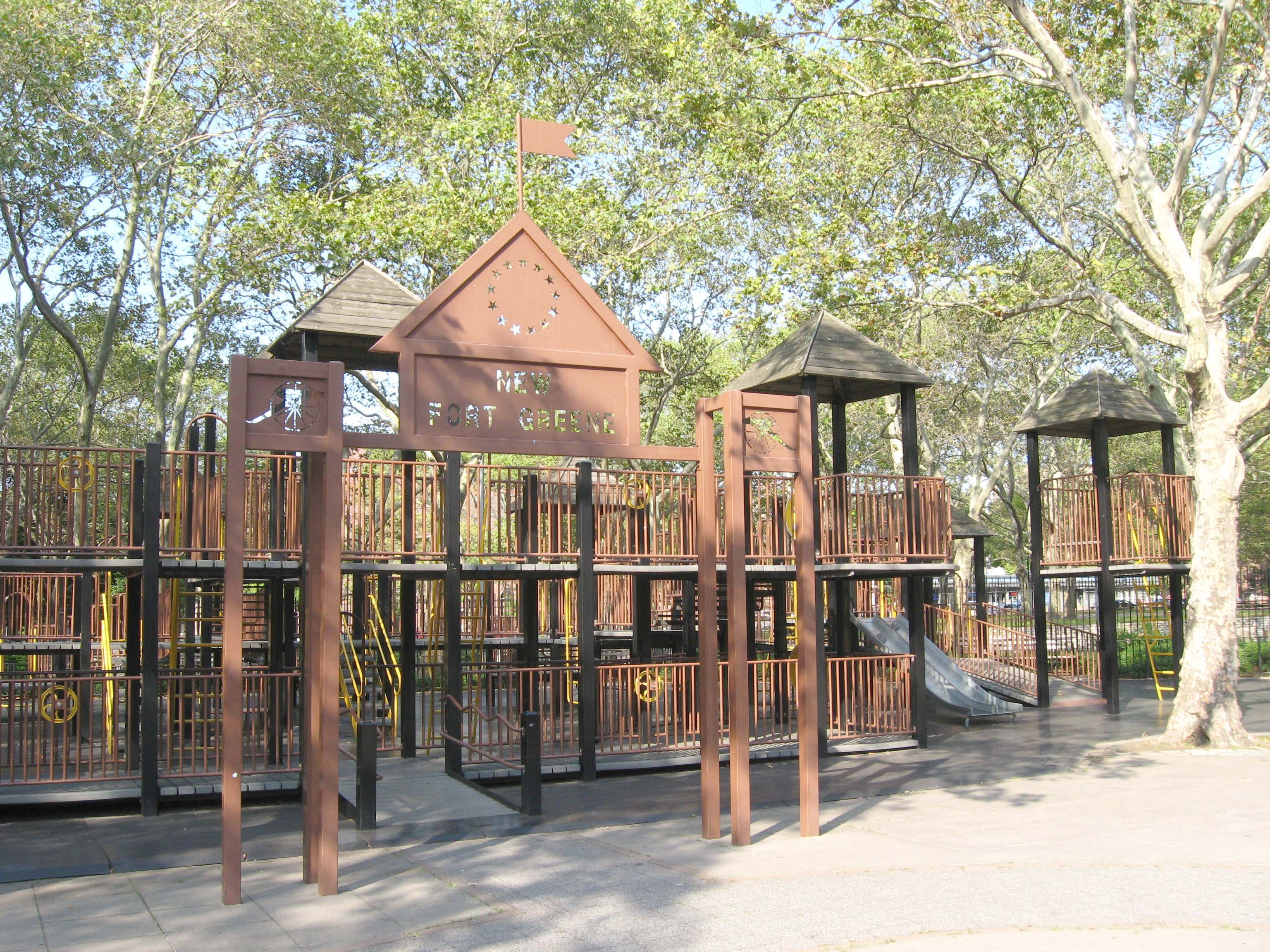 Looking north at New Fort Green playground in Fort Greene, Brooklyn on a partly sunny midday for WTM